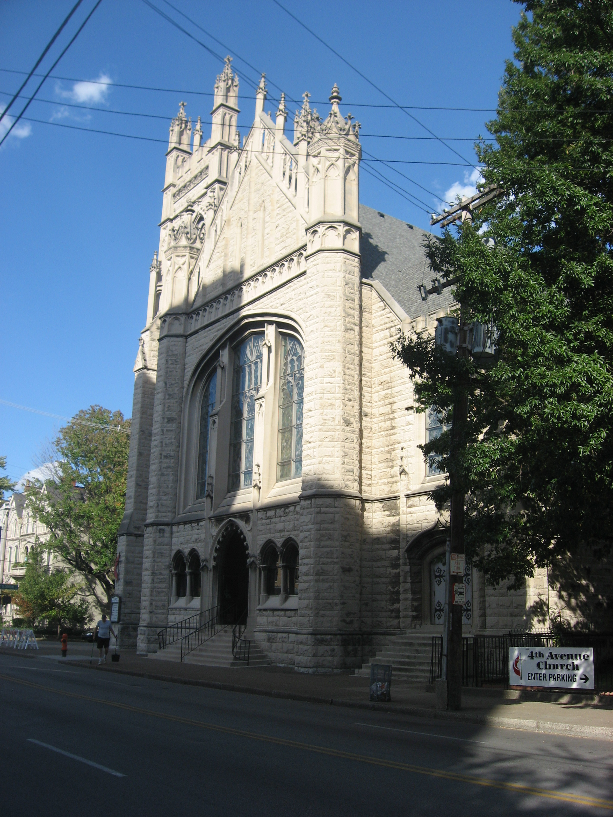 Front of the Fourth Avenue Methodist Church, located at 318 W. St. Catherine Street in Louisville, Kentucky, United States. Built in 1900, it is listed on the National Register of Historic Places, and it is part of a Register-listed historic district, the Old Louisville Residential District.